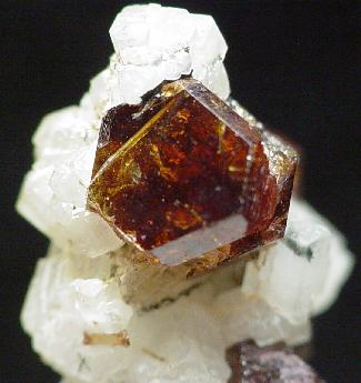 Eudialyte Locality: Kukisvumchorr Mt, Khibiny Massif, Kola Peninsula, Murmanskaja Oblast', Northern Region, Russia (Locality at ) Superb, extremely rare pocket crystal of eudialyte that have excellent lustre to them. Most crystals from these prolific Russian localities (and others!) form frozen in matrix and are thus dull and lustreless when exposed. This one, however, has superb, sharp crystals that have both gemminess and luster. 1.5 x 1.25 x 1 cm